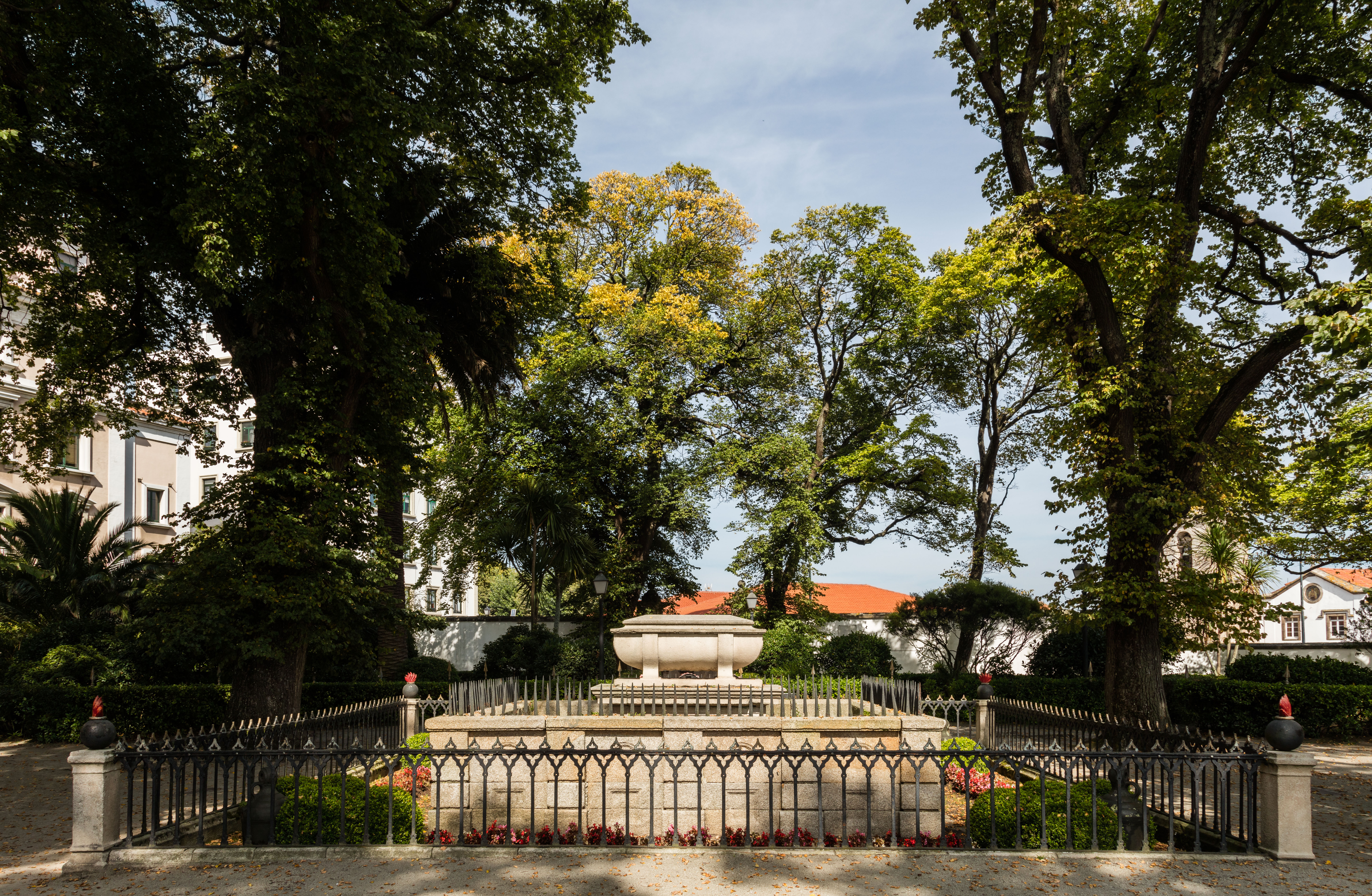 St Carlos Garden, La Coruña, Spain